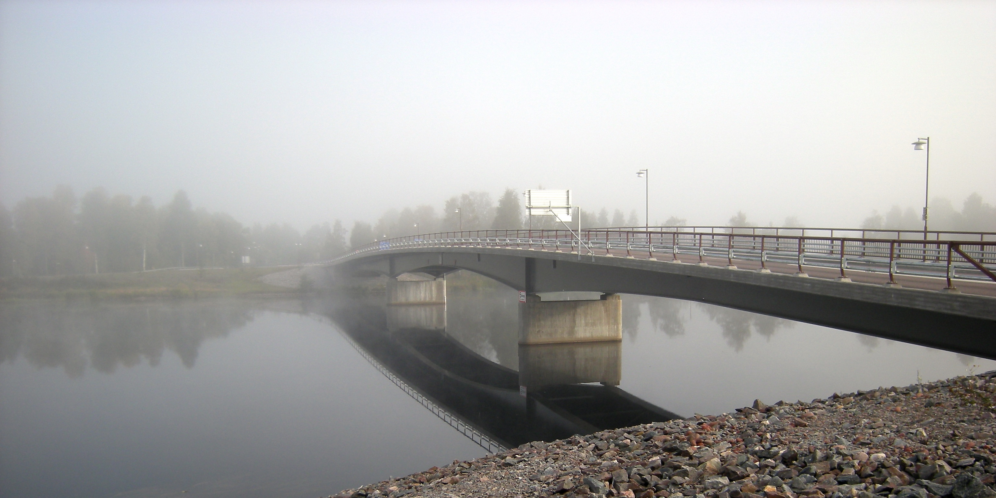 Bridge over Dalälven at Torsång.